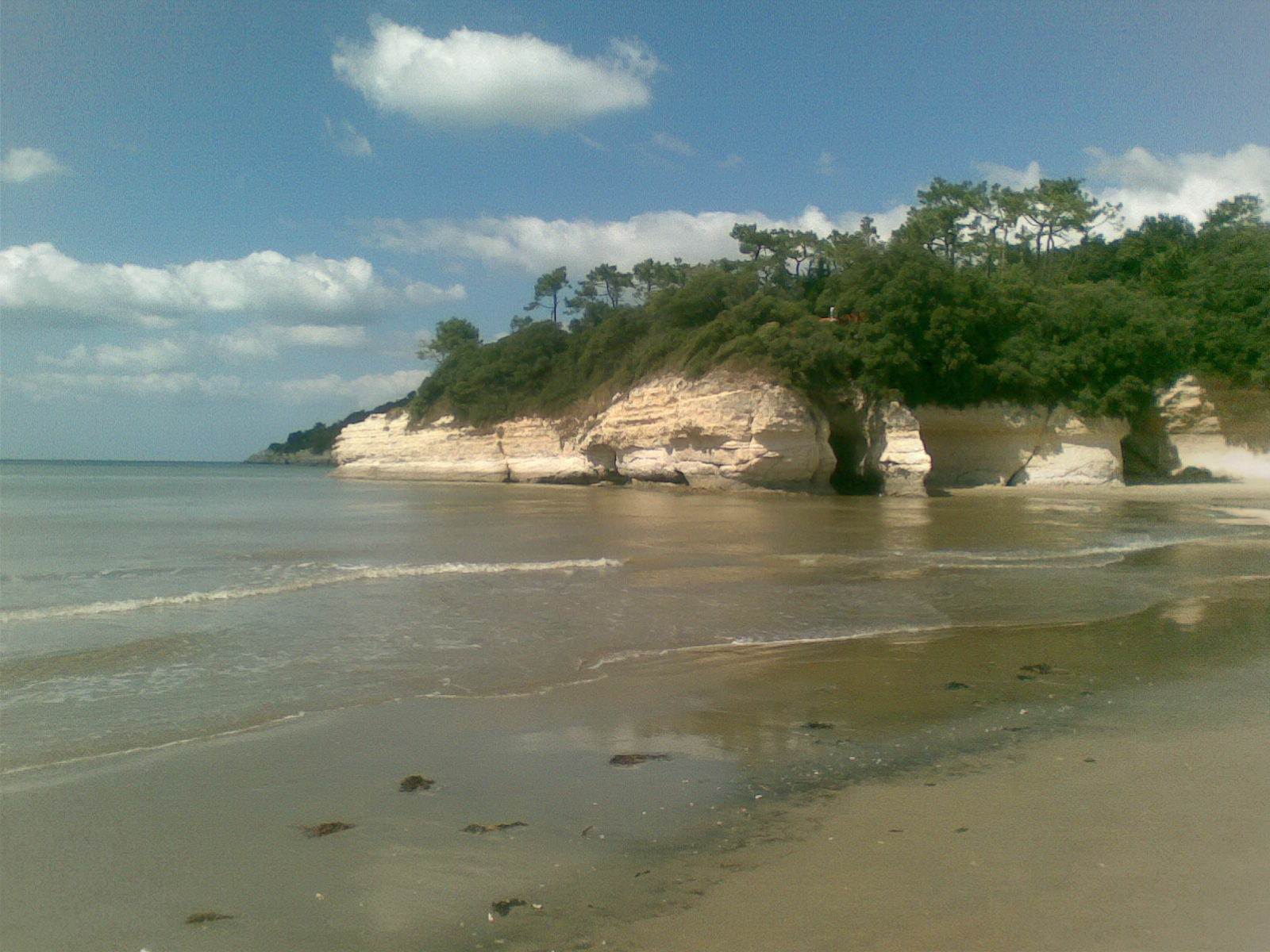 Plage, Meschers-sur-Gironde, Charente-Maritime, France